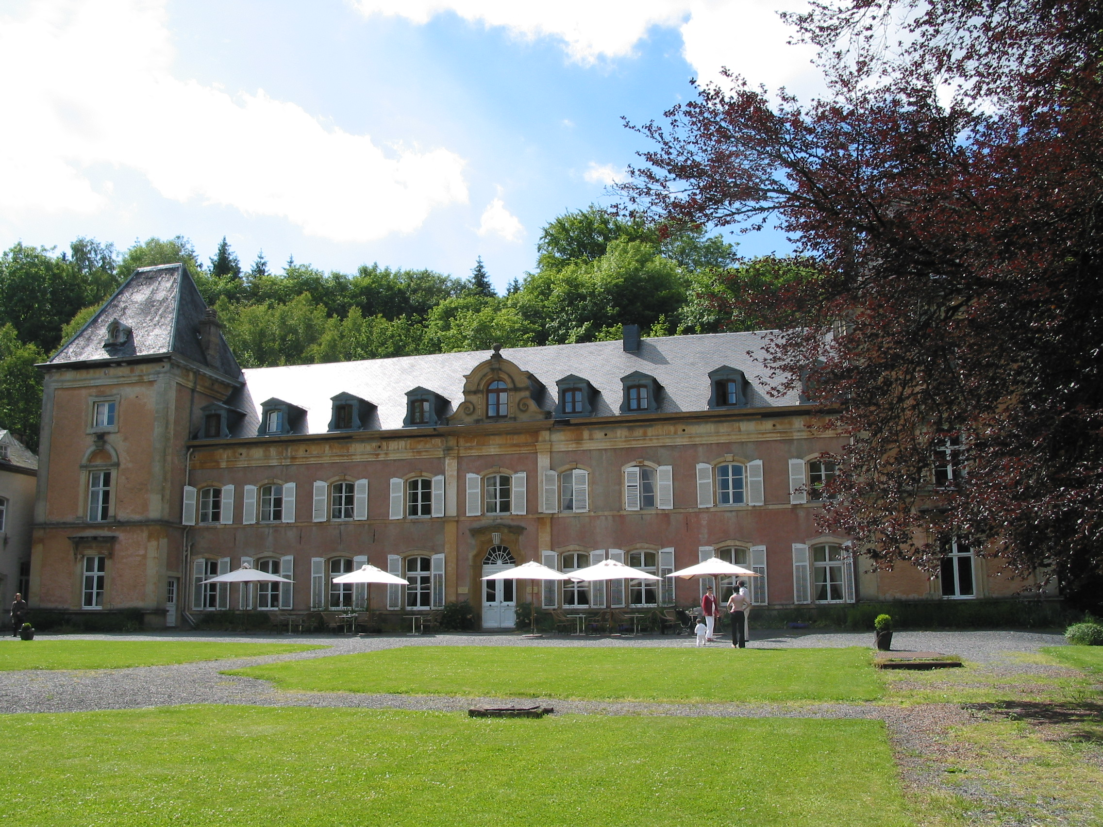 Habay-la-Neuve (Belgium), the « Pont d’Oye » castle.